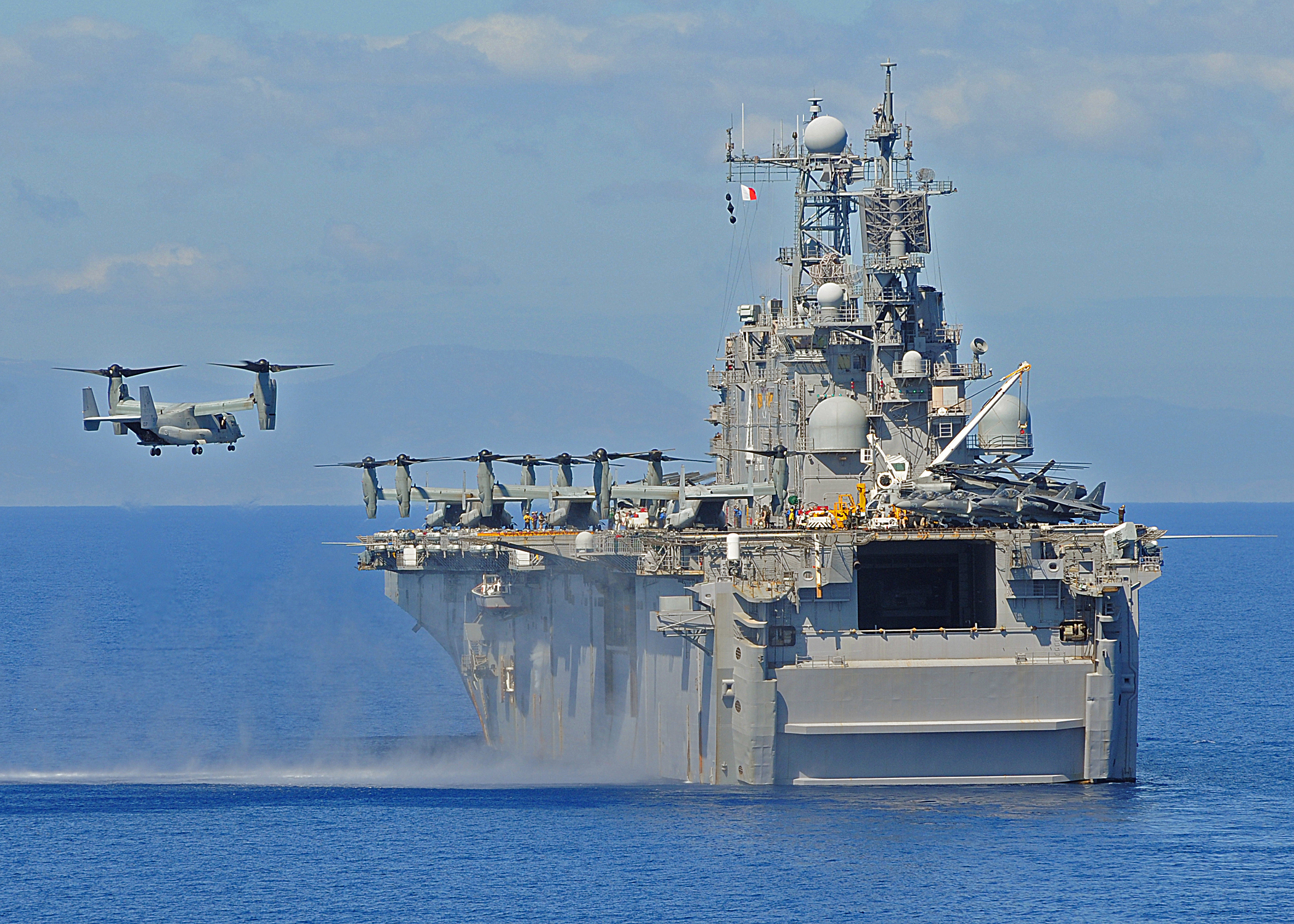 CARIBBEAN SEA (Jan. 29, 2010) A MV-22B Osprey assigned to Marine Medium Tiltrotor Squadron (VMM) 162, prepares to land aboard the multi-purpose amphibious assault ship USS Nassau (LHA 4) near the coast of Haiti. Nassau is supporting Operation Unified Response following a 7.0 magnitude earthquake that caused severe damage in Haiti Jan. 12. (U.S. Navy photo by Mass Communication Specialist 2nd Class Jason R. Zalasky/Released)